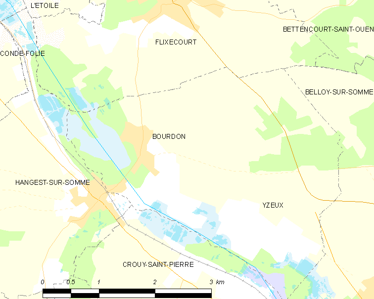 Map of French municipality Bourdon